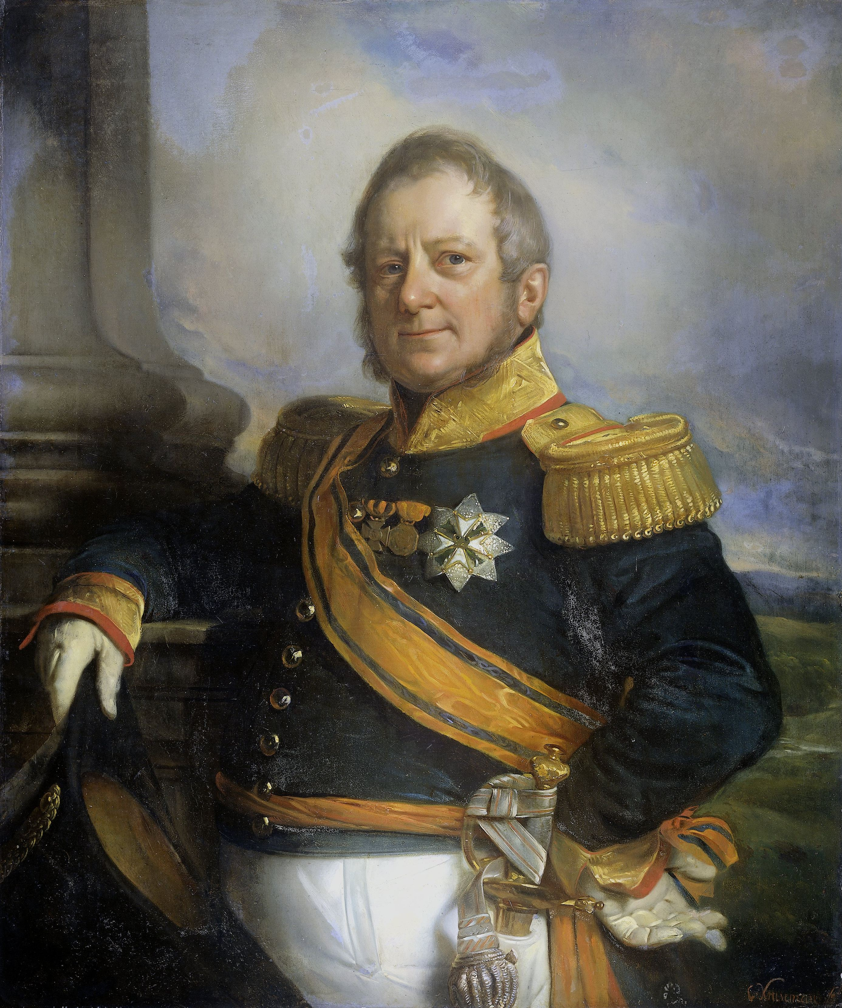 Portrait of Hendrik Merkus, Baron de Kock, army commander and after 1826 lieutenant governor general of the Dutch East Indies. Standing, at half-length, holding a bicorne in his right hand, leaning against the base of a column, his left hand on his side. On the background a landscape. Partof the Governor-general series.